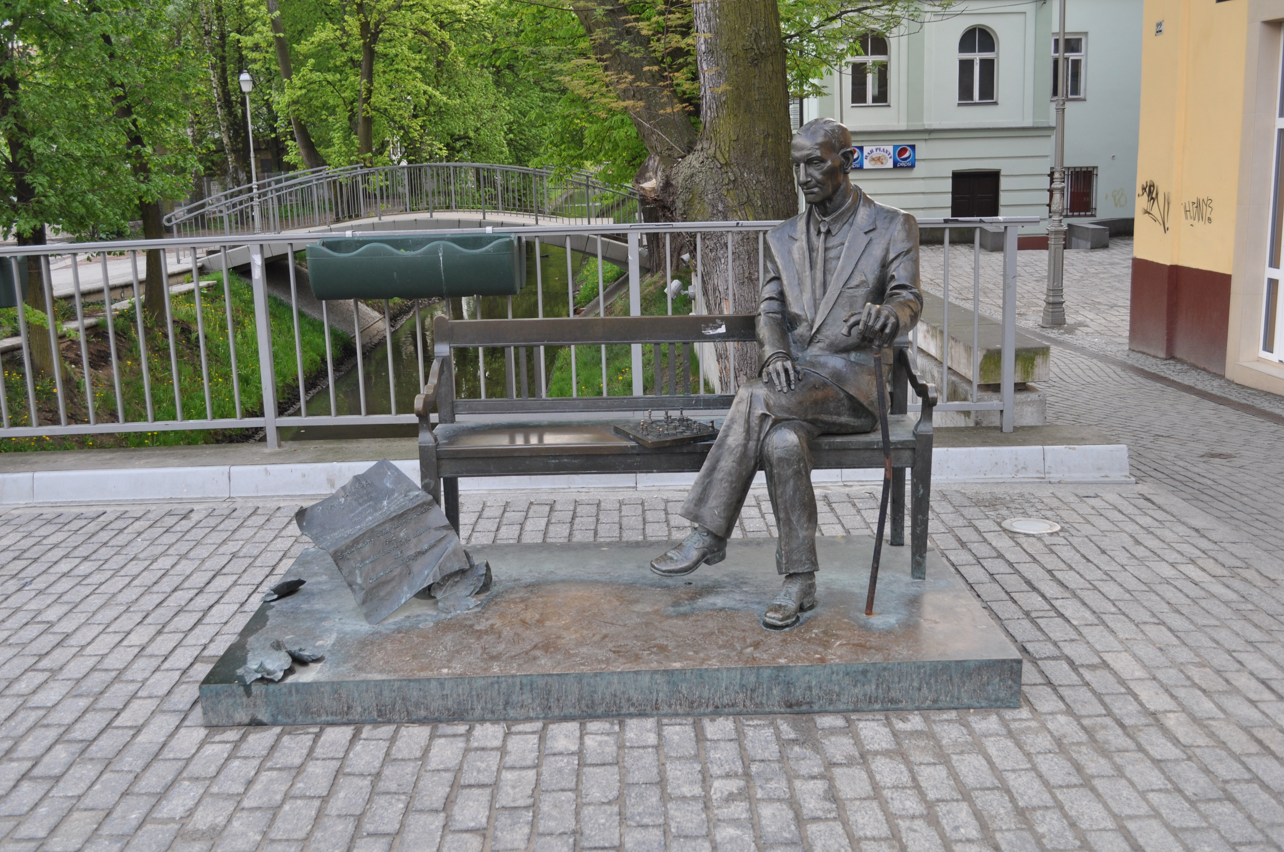 Jan Karsk monument in Kielce